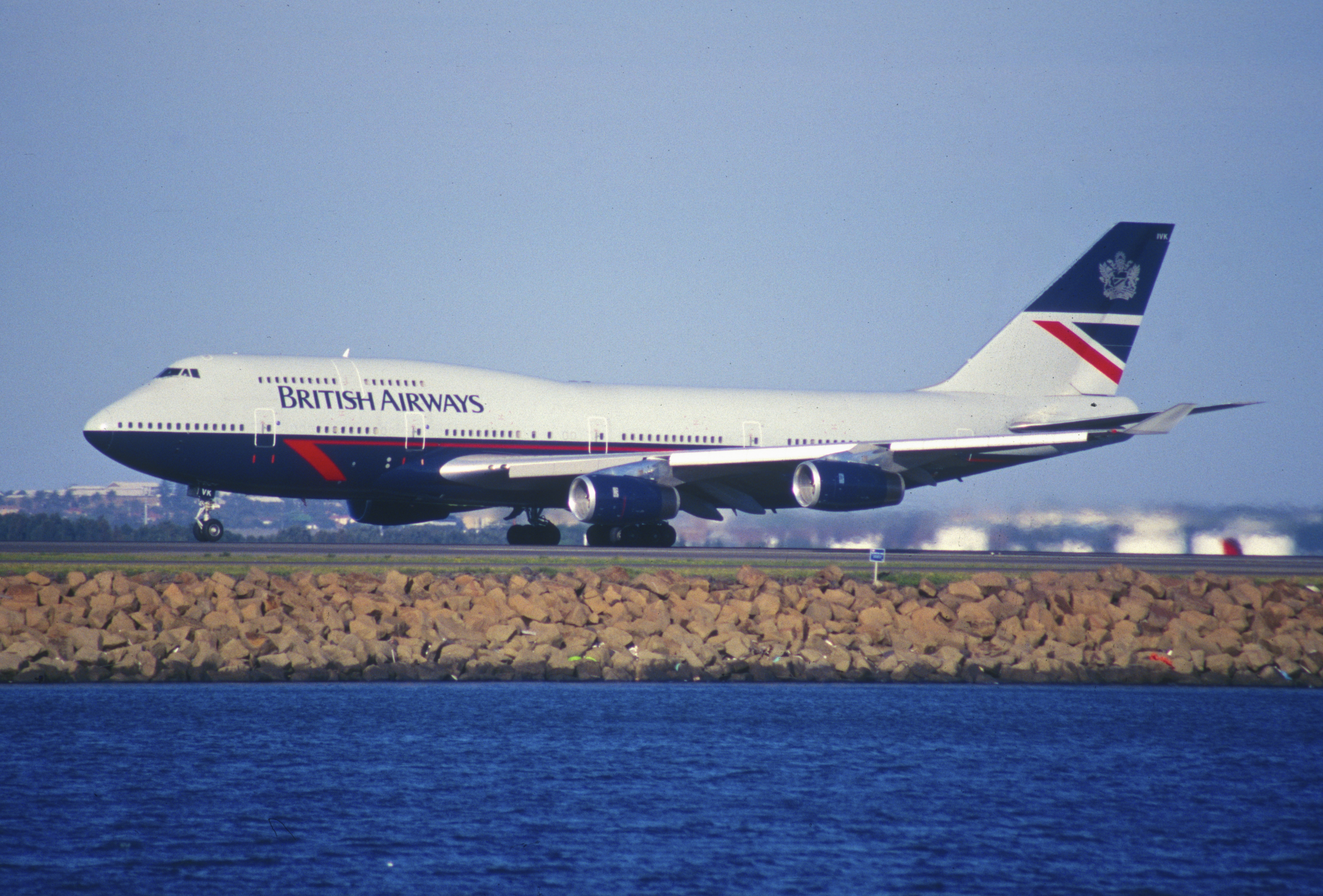 70dr - British Airways Boeing 747-436; G-CIVK@SYD;04.09.1999